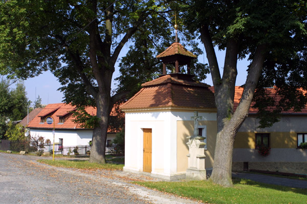 Chapel in Bohy, Plzeň Region, Czech Republic.